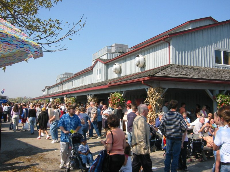 Farmer's market in St. Jacobs. Photo courtesy Tomas Vinar. Photo taken in October 2003.